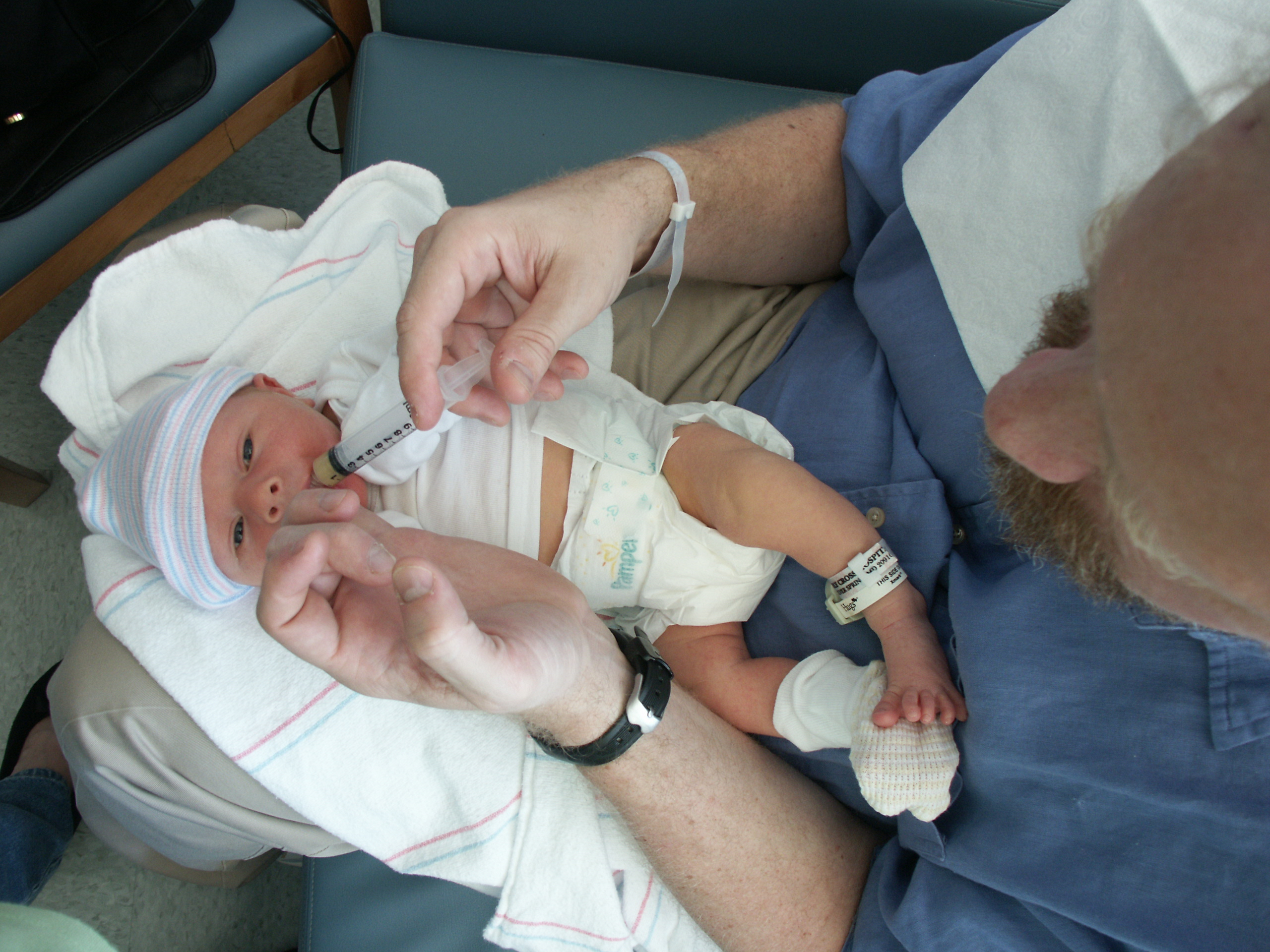 father feeding Newborn baby with colostrum. They both have id bracelets.